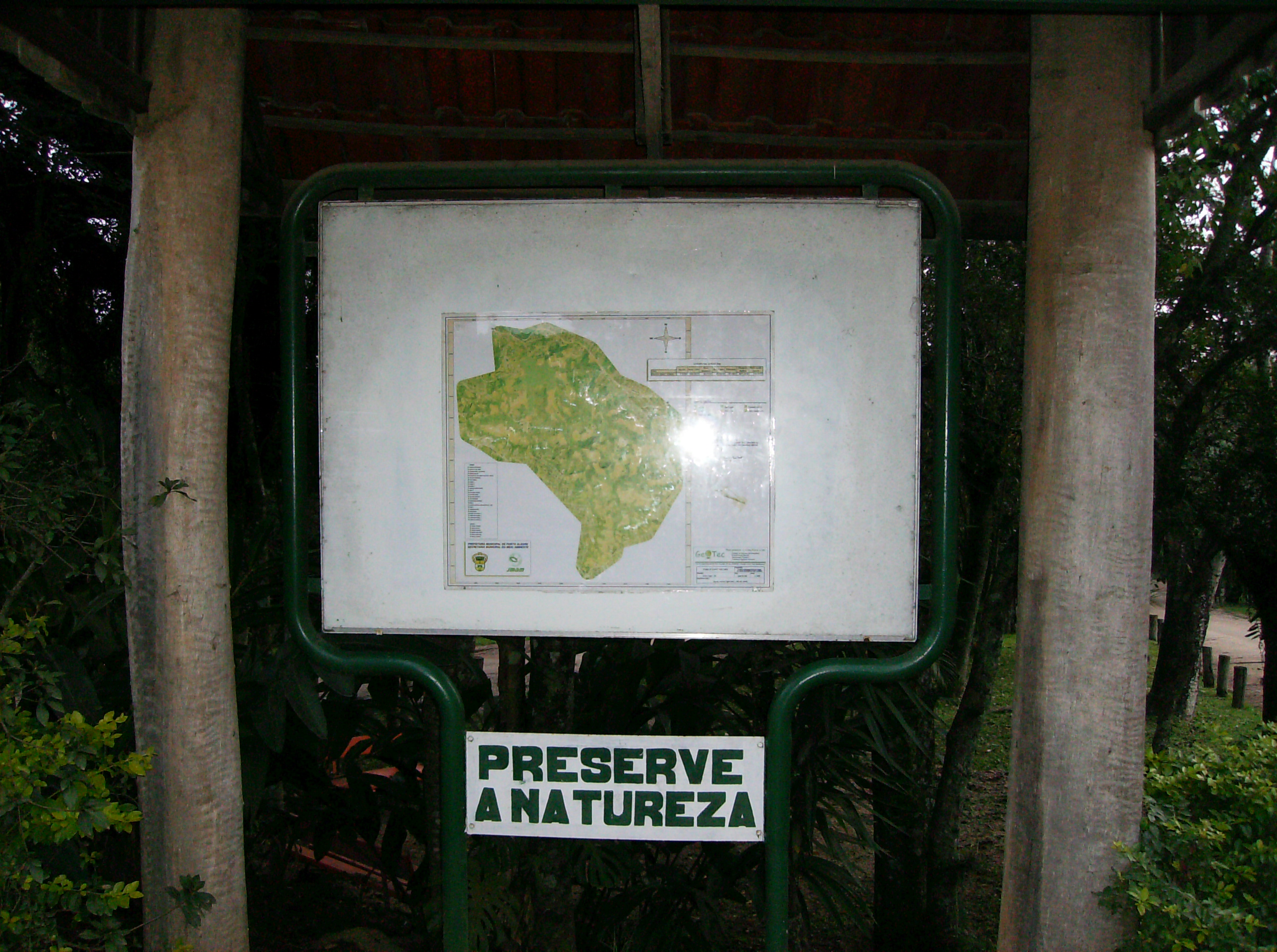 Notice at the entrance of park visitors.